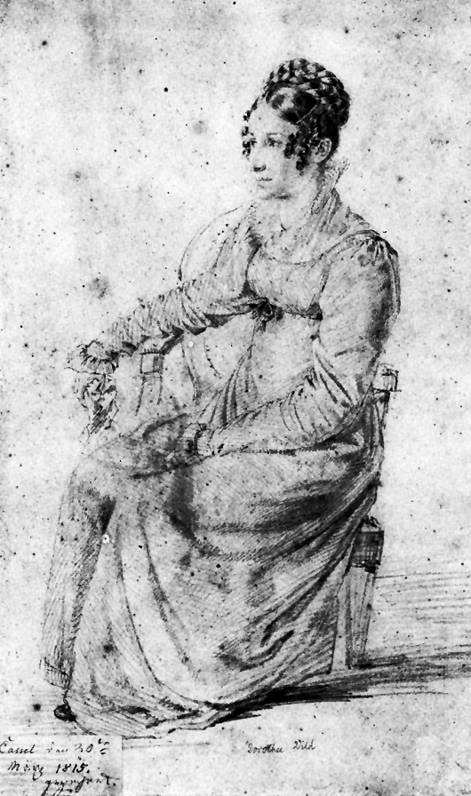 Portrait of Dorothea (Dortchen) Wild; future wife of Wilhelm Grimm; pencil drawing